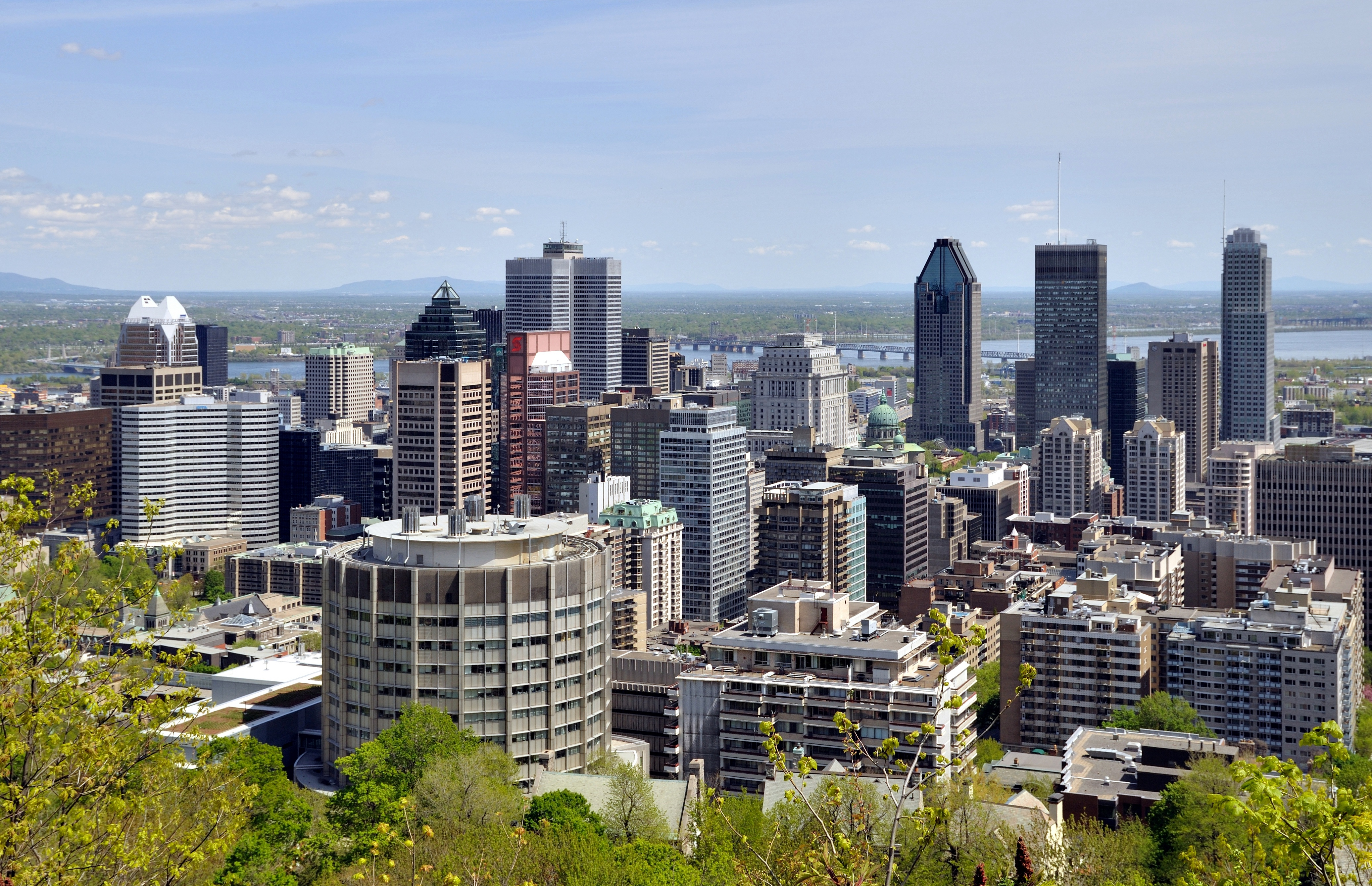 Montreal: Skyline from Mont Royal